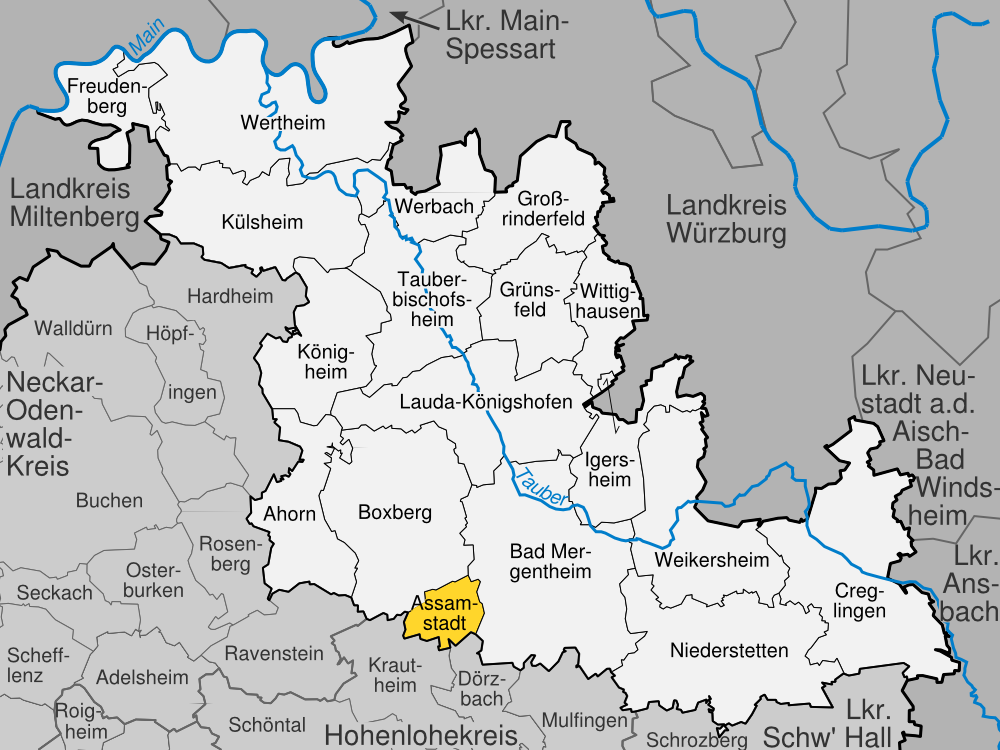 position of Assamstadt within the Main-Tauber-Kreis, Baden-Württemberg, Germany